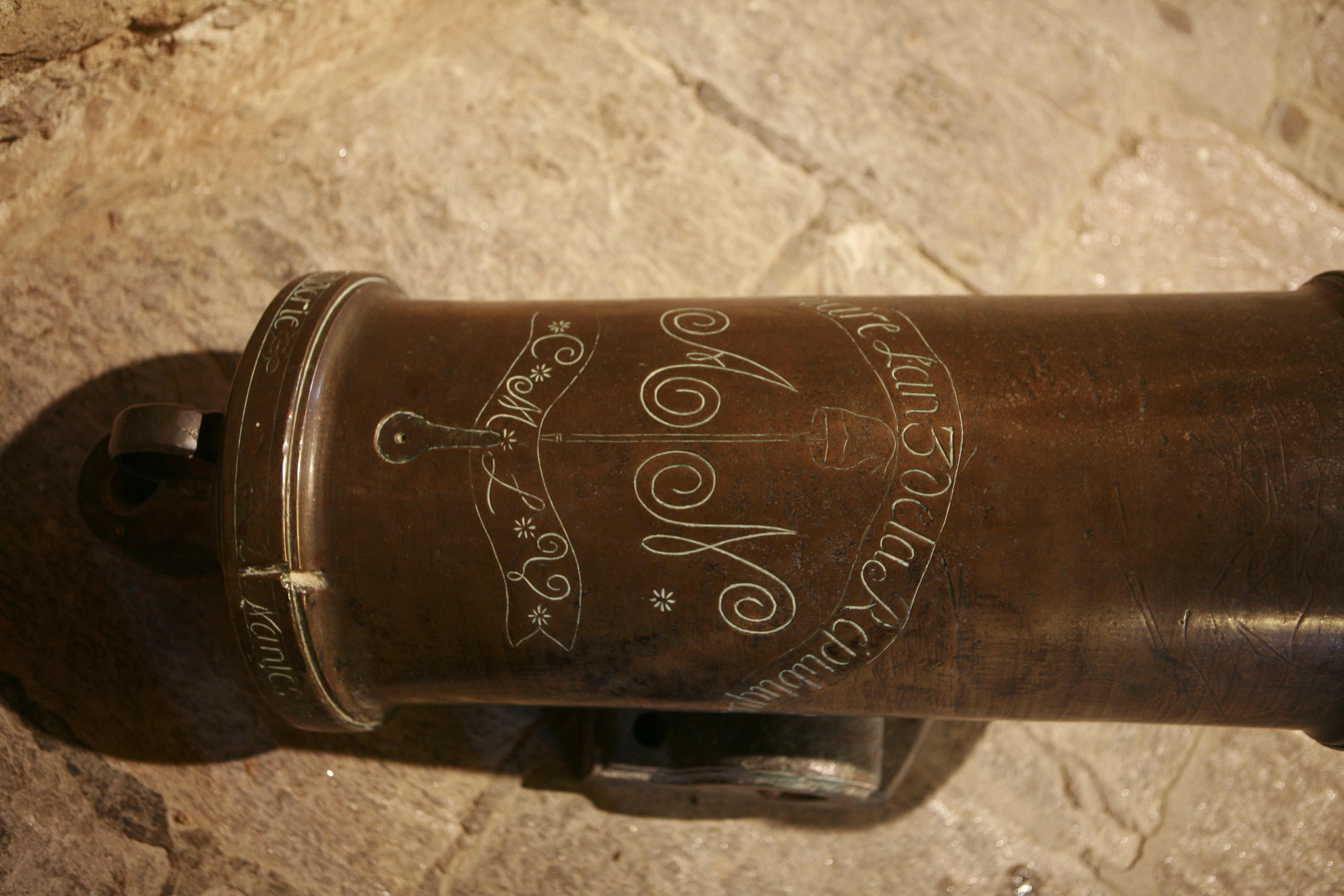 36-pounder howitzer, from the wreck of the 74-gun ship of the line Golymin